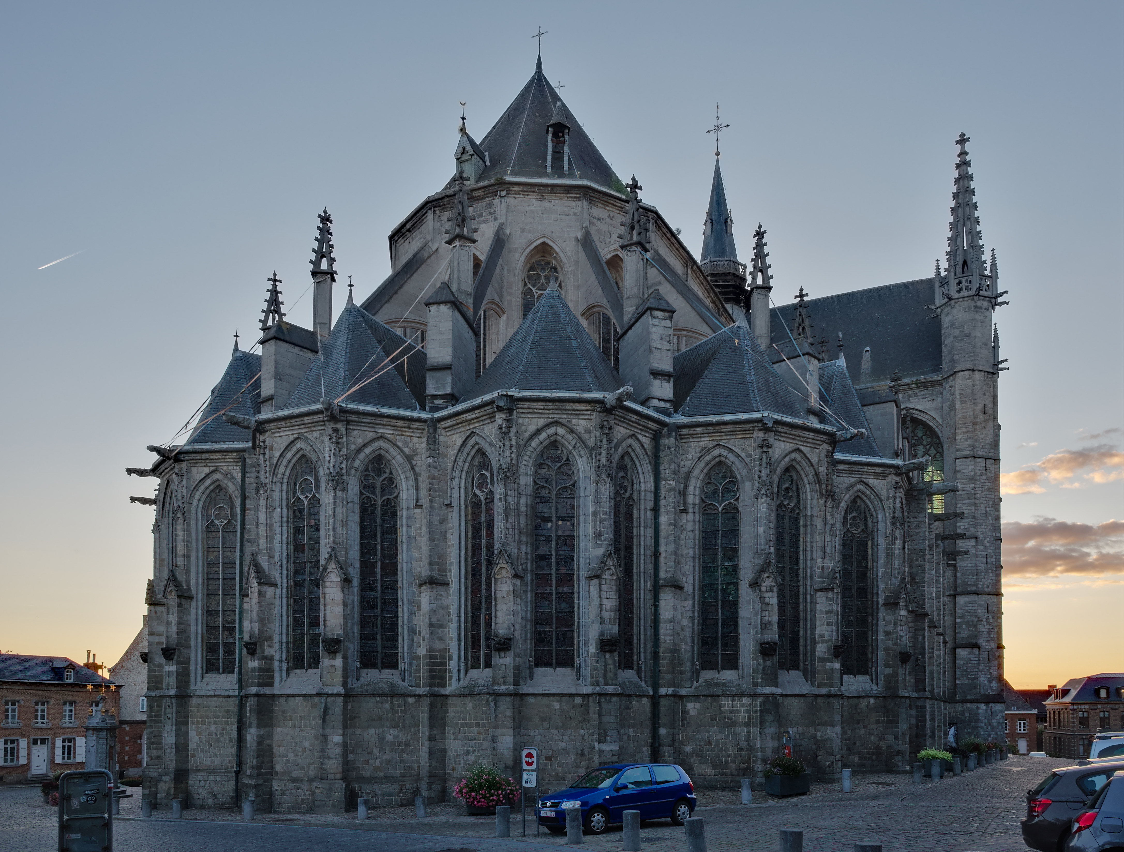 Saint Waltrude Collegiate Church (East side) This photo of immovable heritage has been taken in the Walloon Region